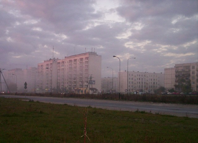 Łódź Olechów - ul. Hetmańska